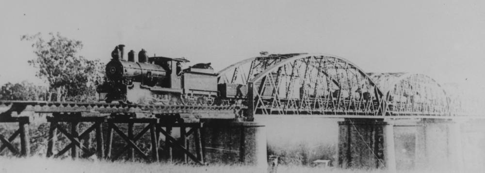 Locomotive on the Biboohra Railway Bridge, Queensland, ca. 1895 Construction for this bridge was completed in 1892. Officially opened 1 January 1893. This bridge was originally over the Brisbane River. It was dismantled and rebuilt over the Barron River at Biboohra. (Description supplied with photograph.).